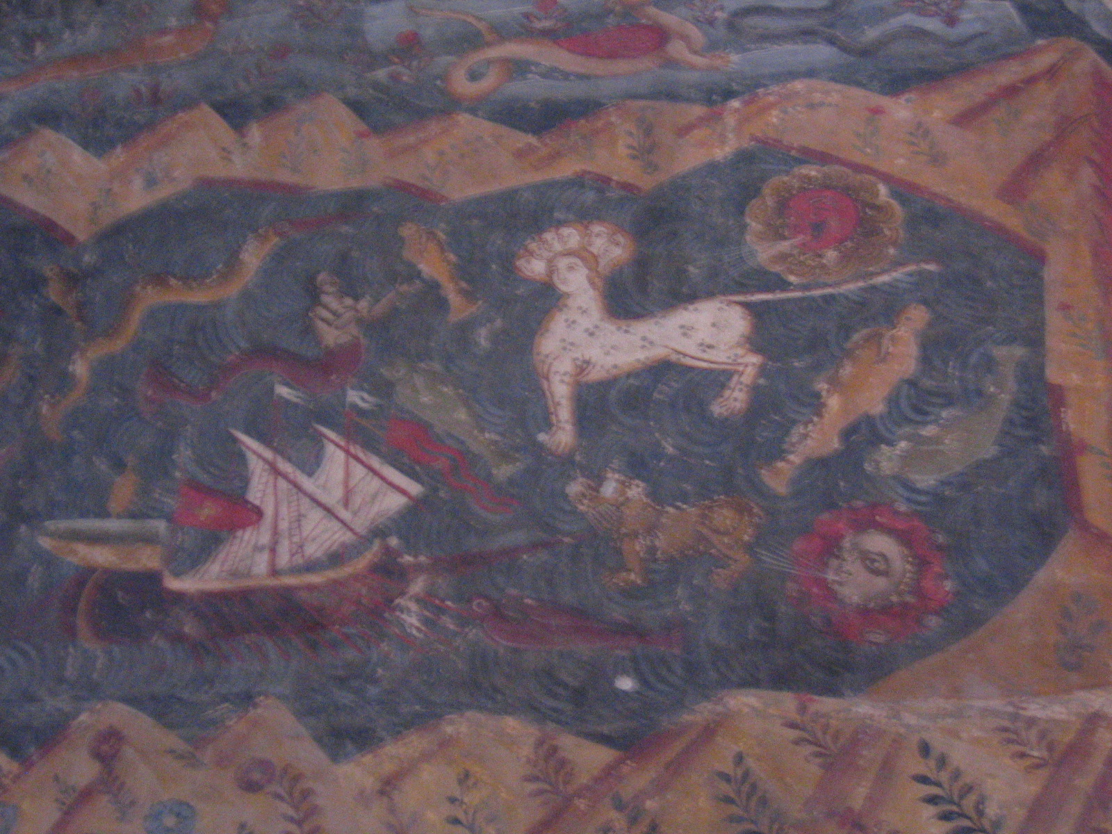 Here be monsters